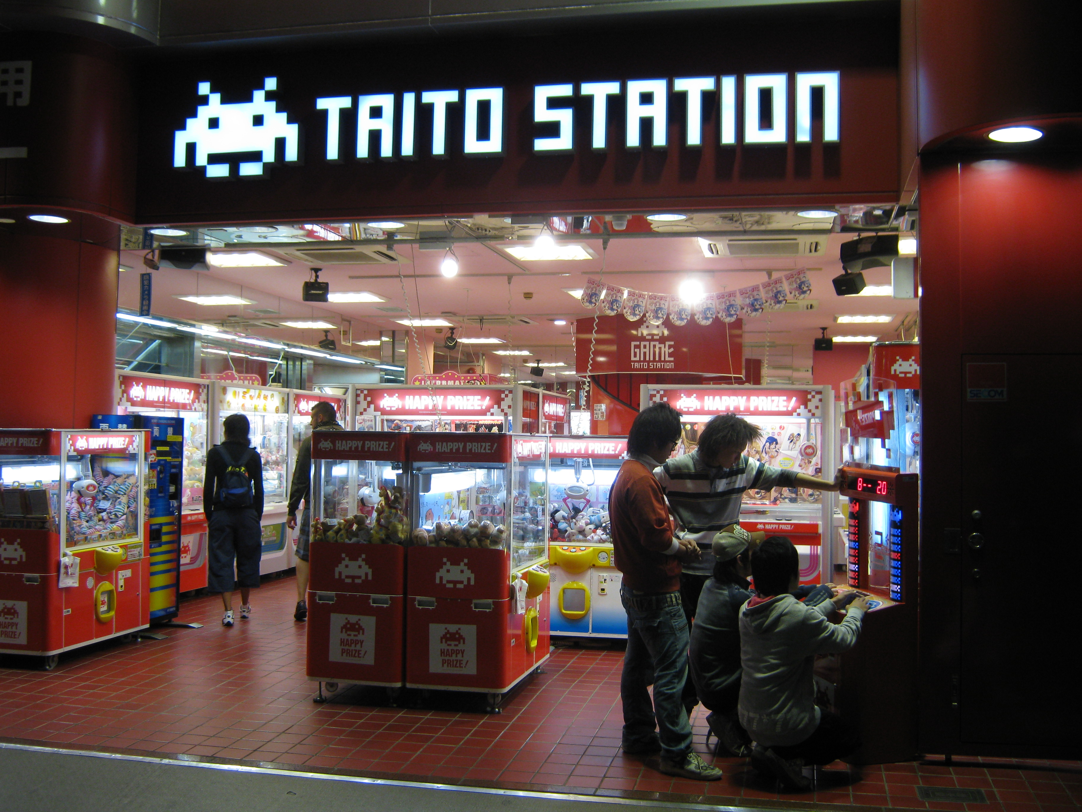 The first floor is dedicated to UFO catchers and the third or so has rhythm games and photo booths. That's all we saw.